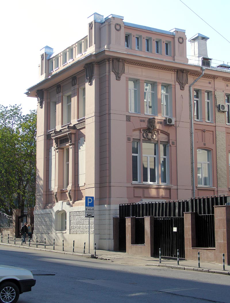 Bank in Rahmanovsky Lane (corner of Neglinnaya Street) in Moscow, architect Illarion Ivanov-Schitz